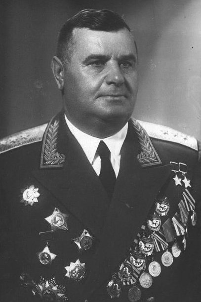 Colonel General Andrei Kravchenko